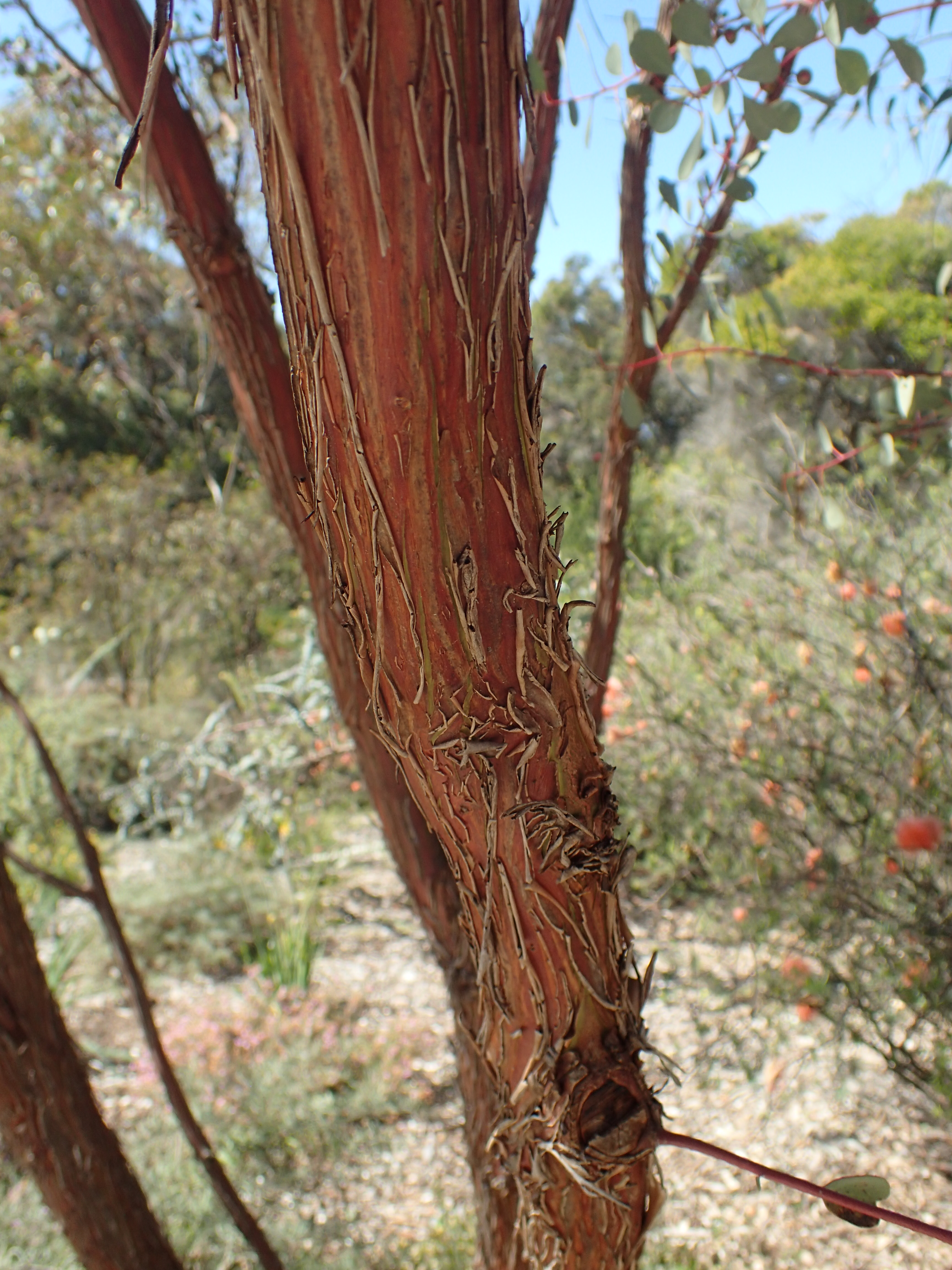 Bark of Eucalyptus websteriana in Kings Park, Perth